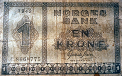 Norwegian 1 Krone note